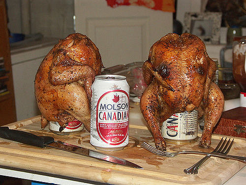 Sean's beer can chickens.